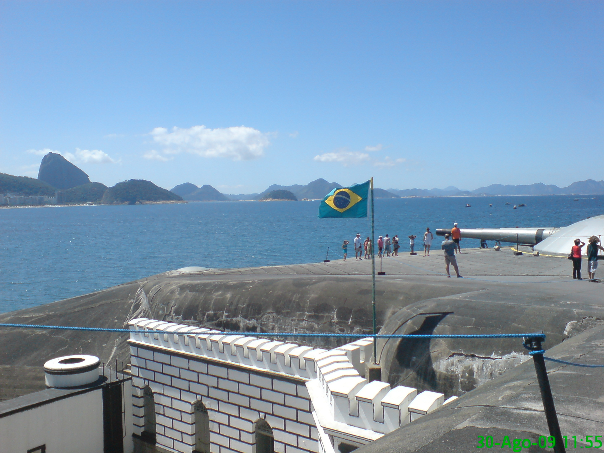 Copacabana Fort's Main Battery Guns pointing towards the Sugar Loaf Mountain and the eastern part of Copacabana Beach. The Copacabana Fort is now a Museum and turned into an important tourist attraction.